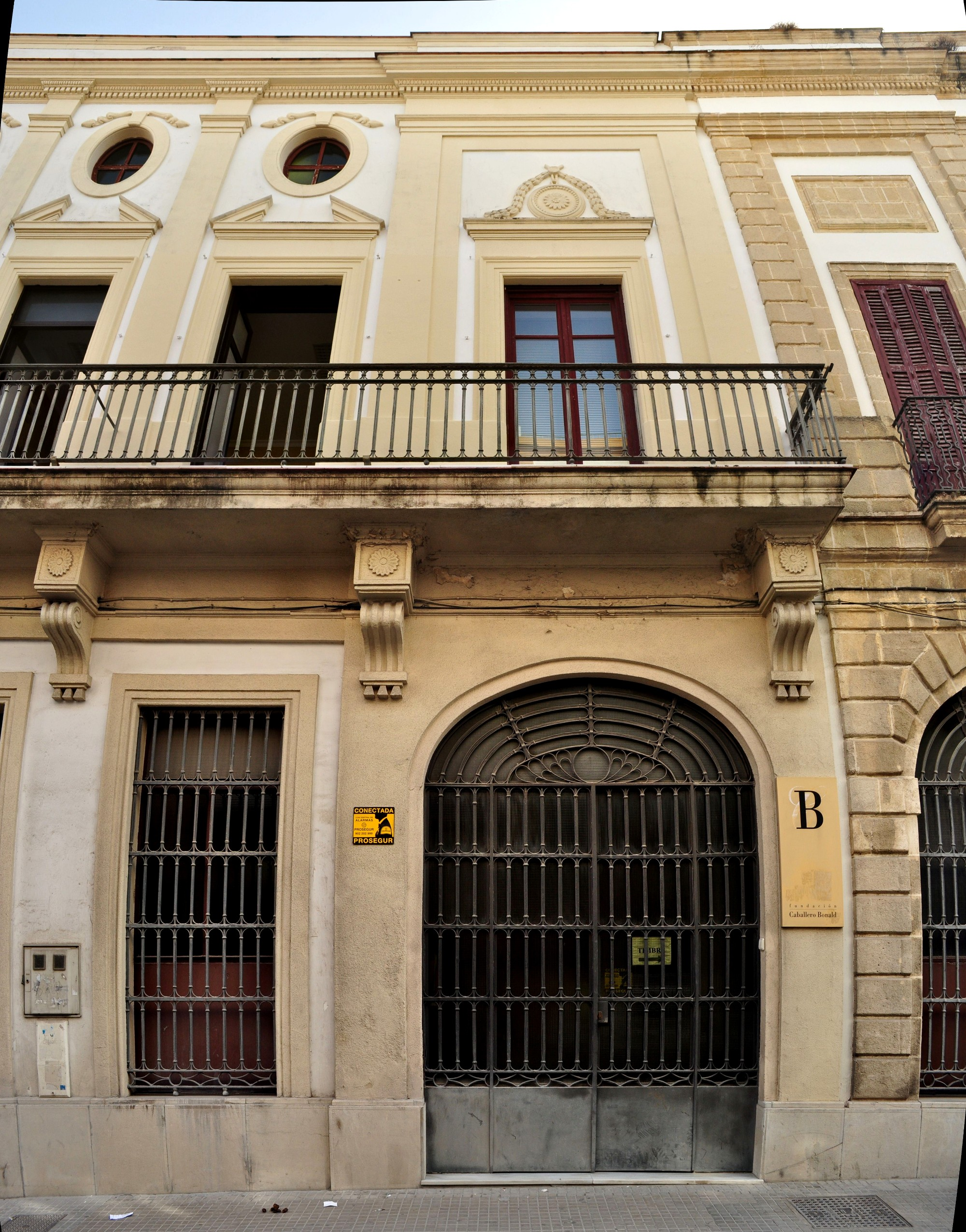 Caballero Bonald Foundation, Main building